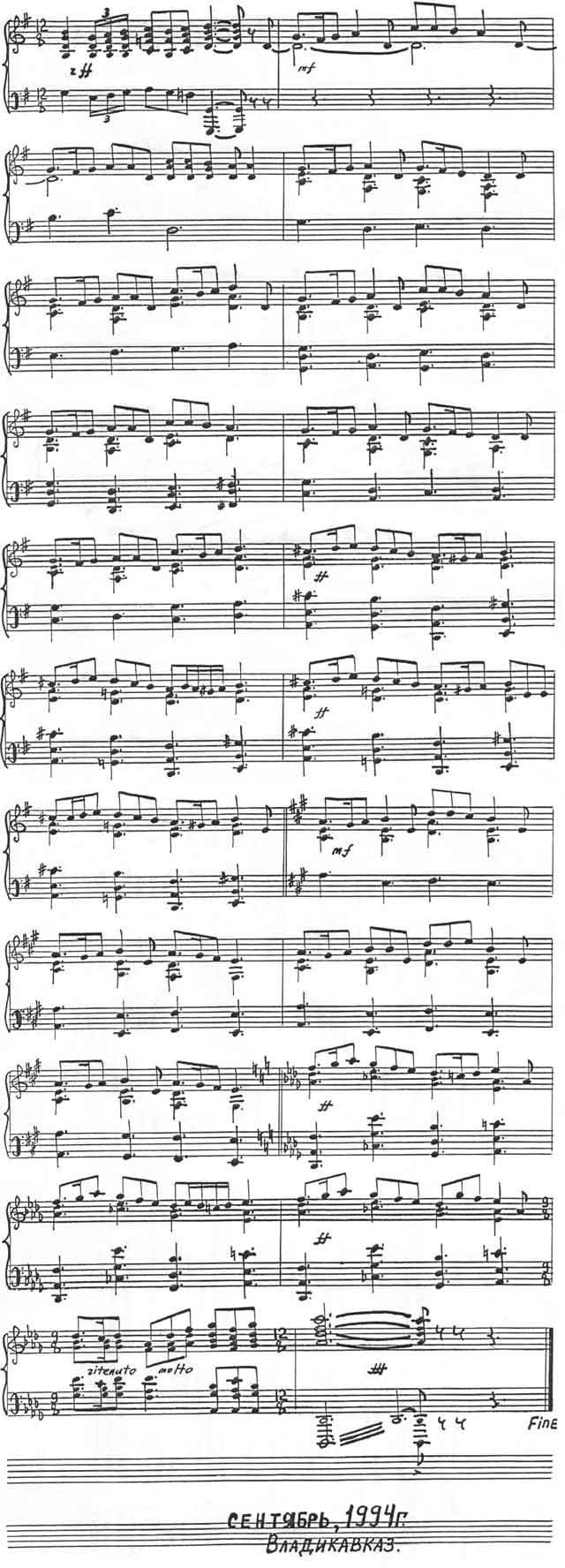 North Ossetia Alania notes